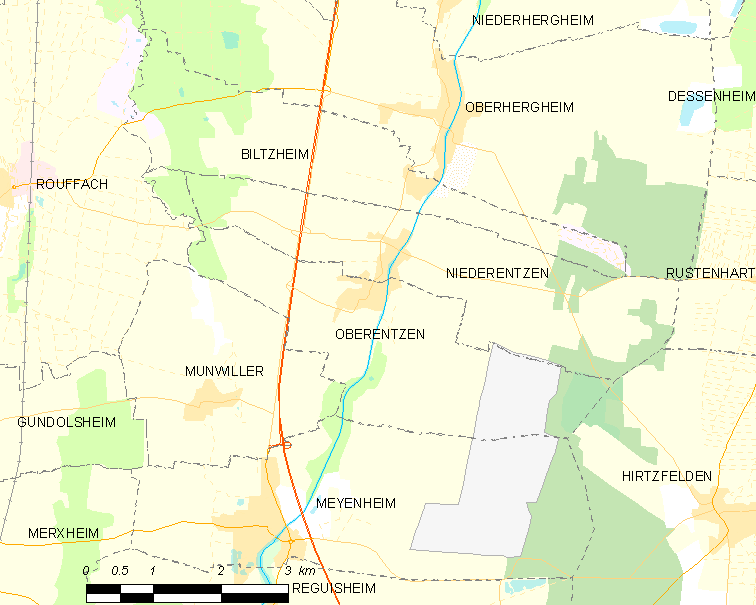 Map of French municipality